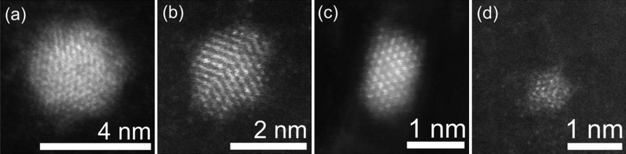 STEM images of as received DNDs (a) and DNDs after annealing at 520 °C, 25 min showing various sizes from 4 to 1 nm (b–d).